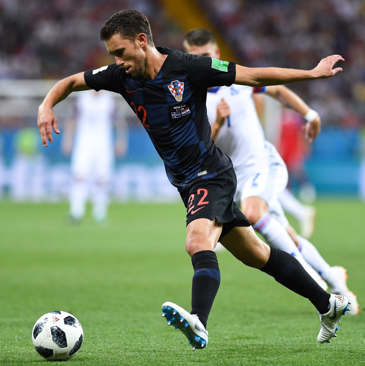 Josip Pivarić